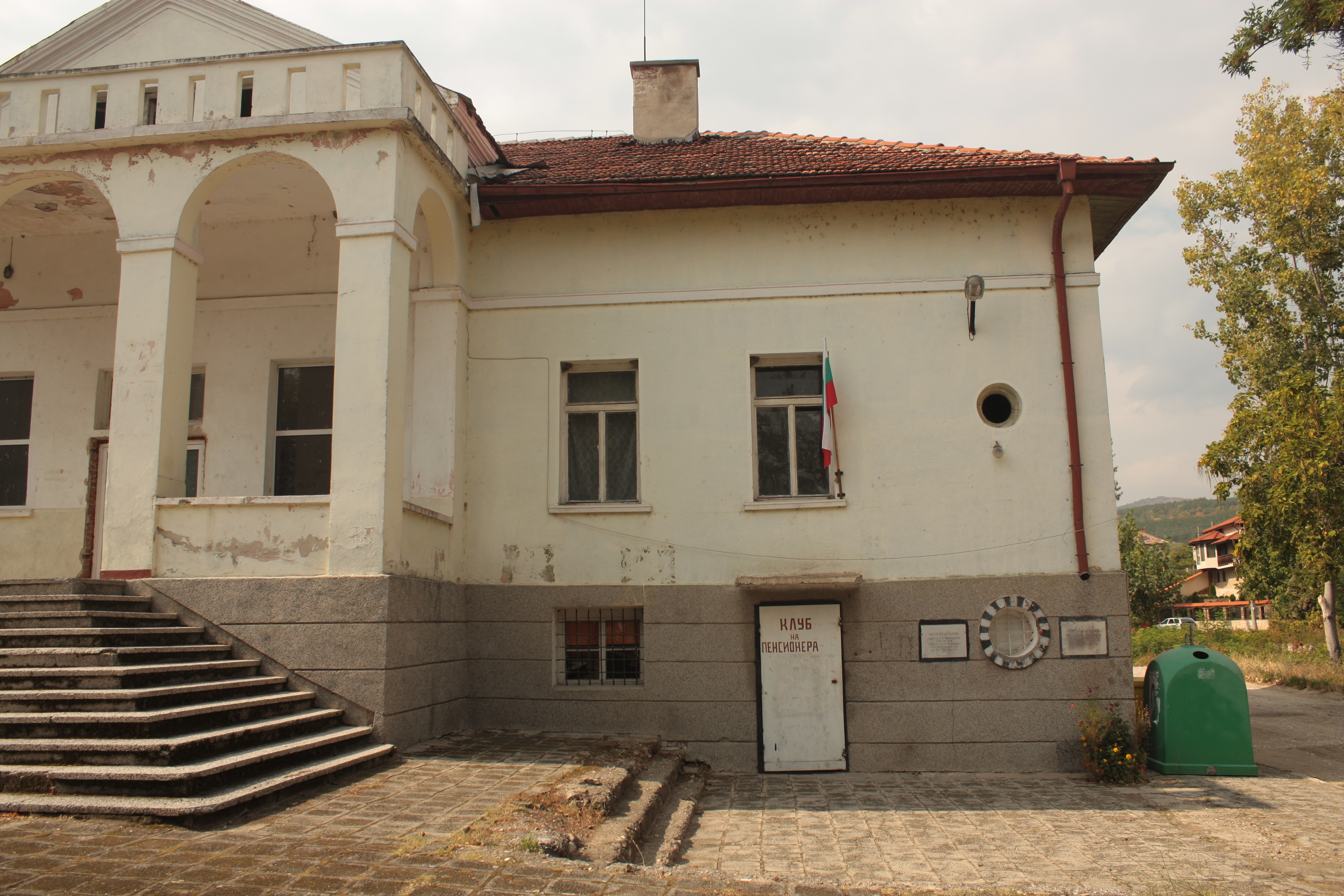 Pensioneers club in Akandzhievo, Bulgaria